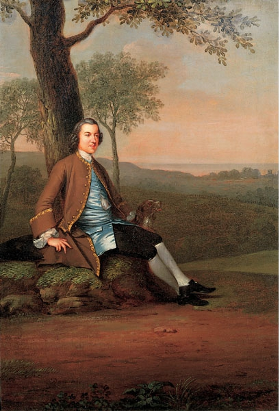 Peter Ducane (1713-1804) was a merchant, Governor and director of both the Bank of England and the East India Company. His wife, was a wealthy heiress, the only duaghter of Henry Norris, a Muscovy merchant. The family are depicted in the grounds of their house at Braxted in Essex. The house itself appears in the middle distance of the central panel depicting the three Ducane children.